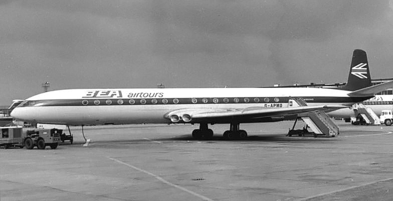 DH 106 Comet 4B of BEA Airtours at Manchester Airport